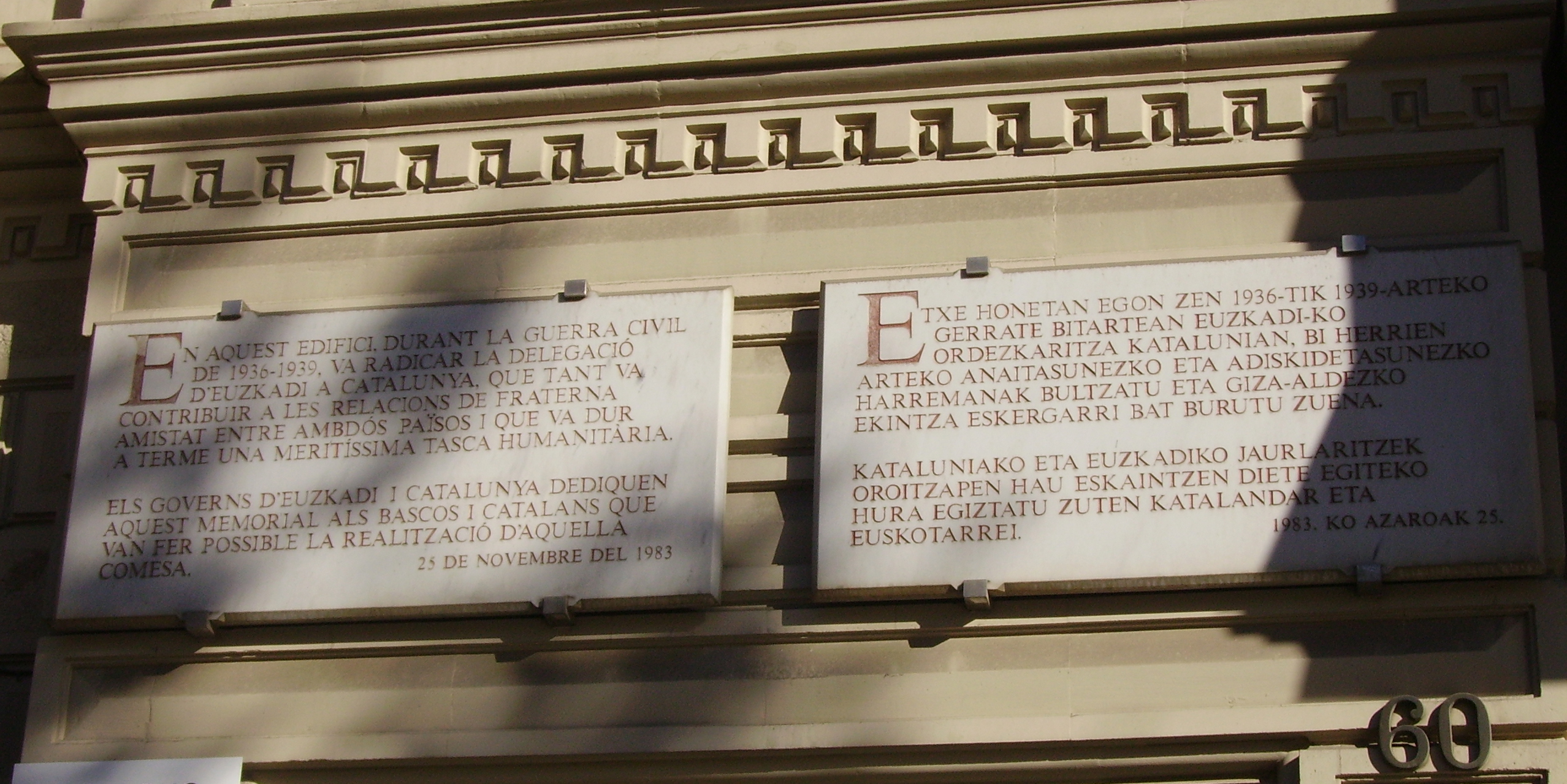 The marmor inscription, both in Catalan and Basc languages, remembers the Delegation of the Basque Government in Catalonia, the during the Spanish Civil War (1936-1939), contributing the good relations between both countries, and a huge humanitarian rol during the war.